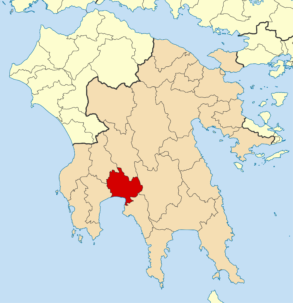 Locator map for Kalamata municipality in Greek region Peloponnese (2011)